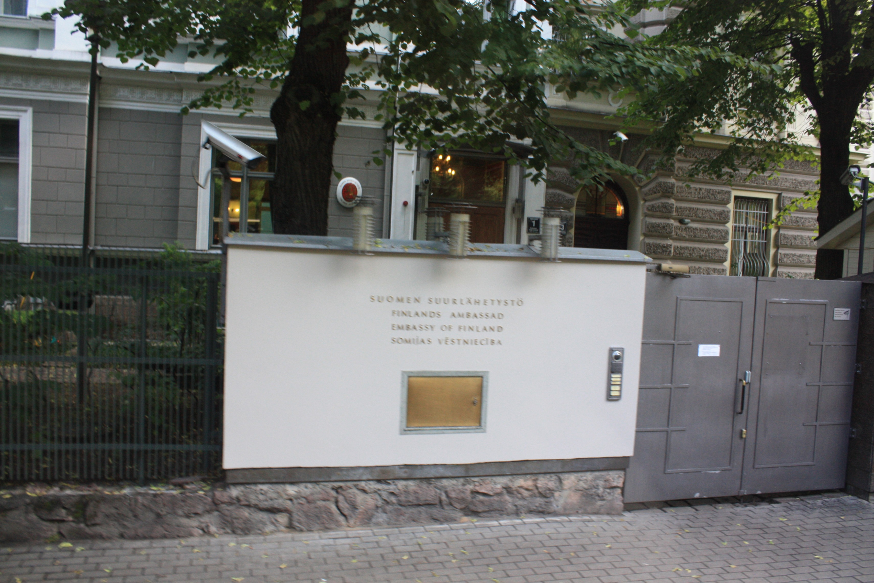 Embassy of Finland in Riga photographed through bus window